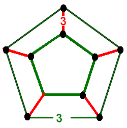 Rectified_600-cell vertex figure